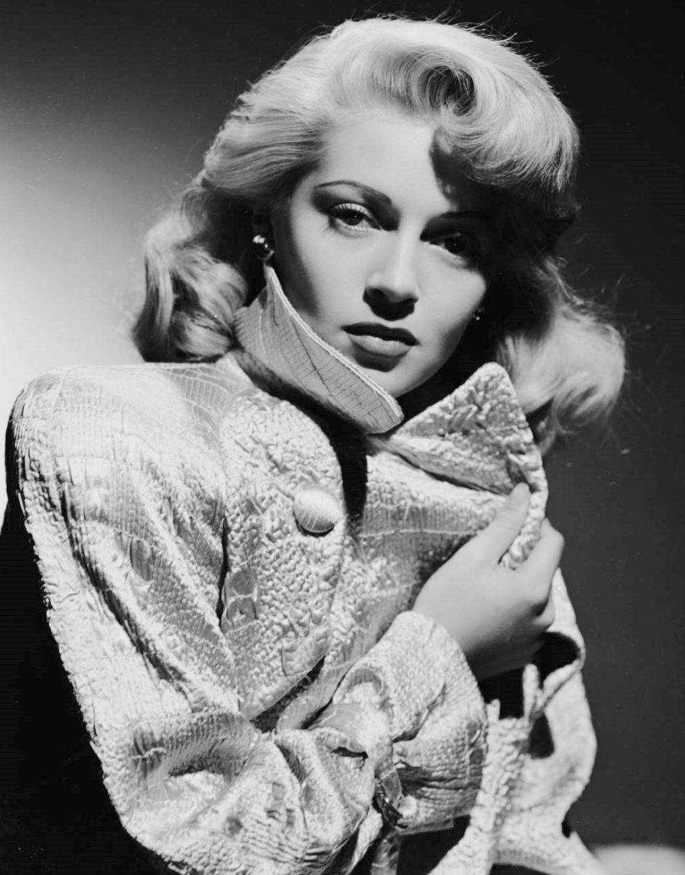 Publicity headshot of Lana Turner in 1943 for MGM Studios.